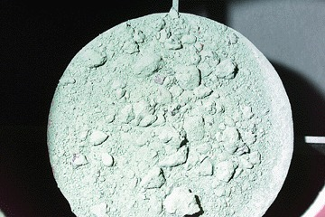 Uranium Tetrafluoride (UF4).